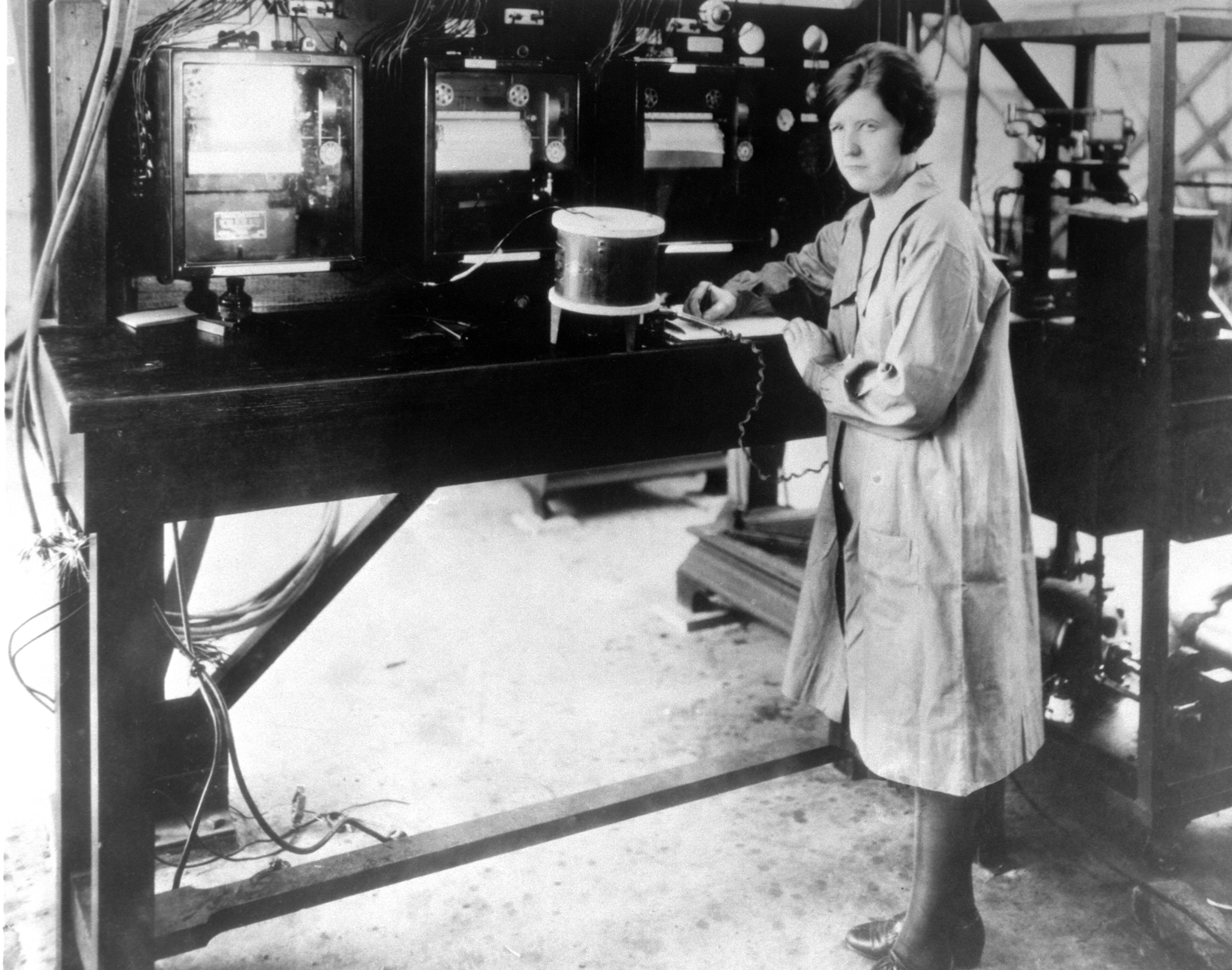 Pearl I Young at the NACA Langley Instrument Research Laboratory. She was the Chief Technical Editor at Langley. Pearl Young attended Jamestowm College and the University of North Dakota, graduating in 1919 with honors, a Phi Beta Kappa key and a triple major in physics, chemistry and mathematics. She was hired by the University to teach physics, a role that typically was served by men. In 1921, there were 21 female and 864 male physicists in the United States. Most of the women were college teachers, hired by women's colleges. There was only one woman physicist working for the federal government at that time, and she worked for the National Bureau of Standards. In 1922 Young was hired as a physicist by the National Advisory Committee for Aeronautics (NACA), and was assigned to the Langley Memorial Aeronautical Laboratory's Instrument Research Division under the direction of Henry J.E. Reid. In 1929 Reid appointed Young as Langley's Chief Technical Editor. She established a "new" office, hired staff and formed the research reports and offical documents that communicated the extraordinary technical accomplishments of Langley. Over her twenty eight years at the NACA and NASA, Young helped define the public image of the NACA and influenced the way aeronautical engineers throughtout NACA (now NASA) communicate their ideas.